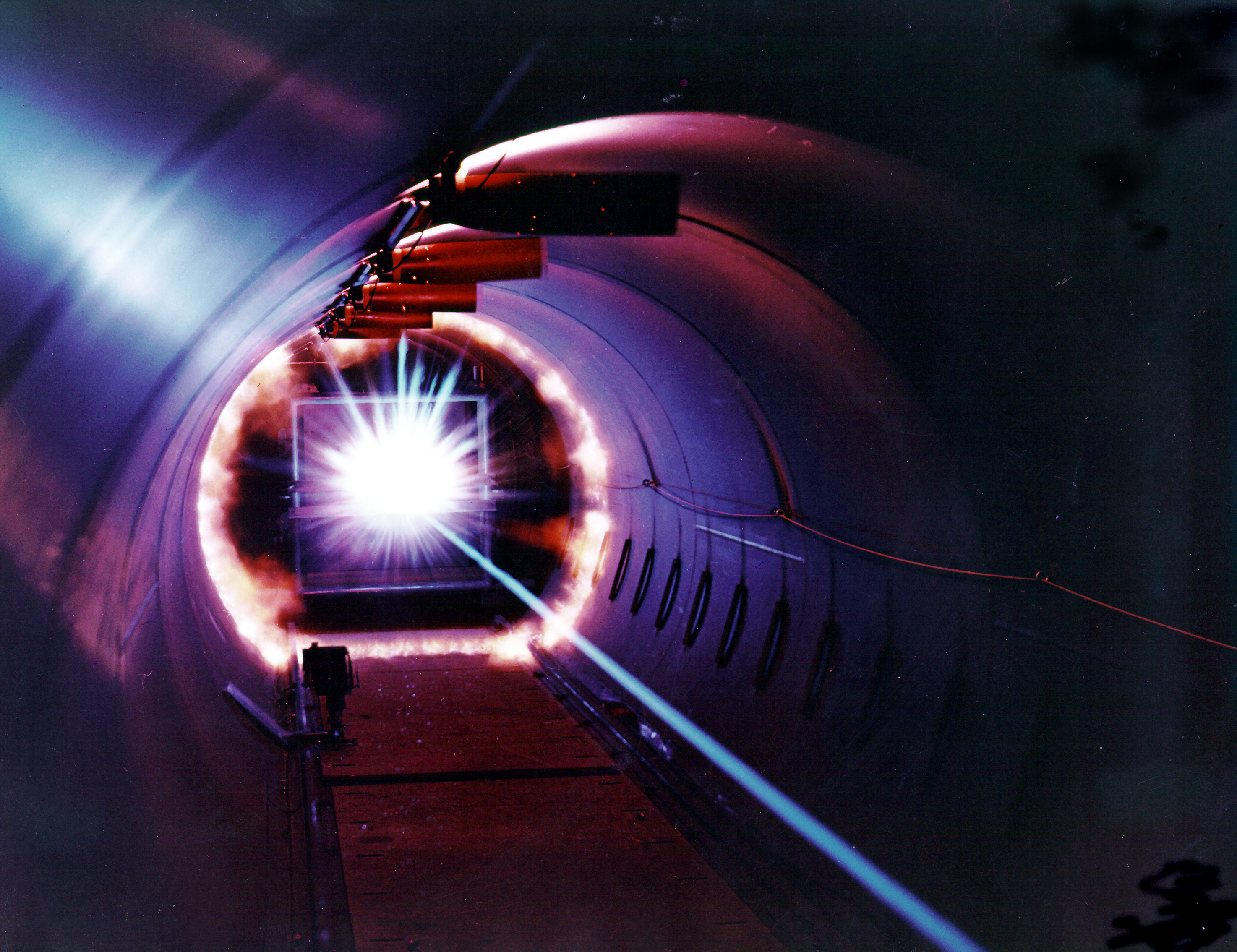 The photo shows the "energy flash" when a projectile launched at speeds up to 17,000 mph impacts a solid surface at the Hypervelocity Ballistic Range at NASA's Ames Research Center, Mountain View, California. This test is used to simulate what happens when a piece of orbital debris hits a spacecraft in orbit.